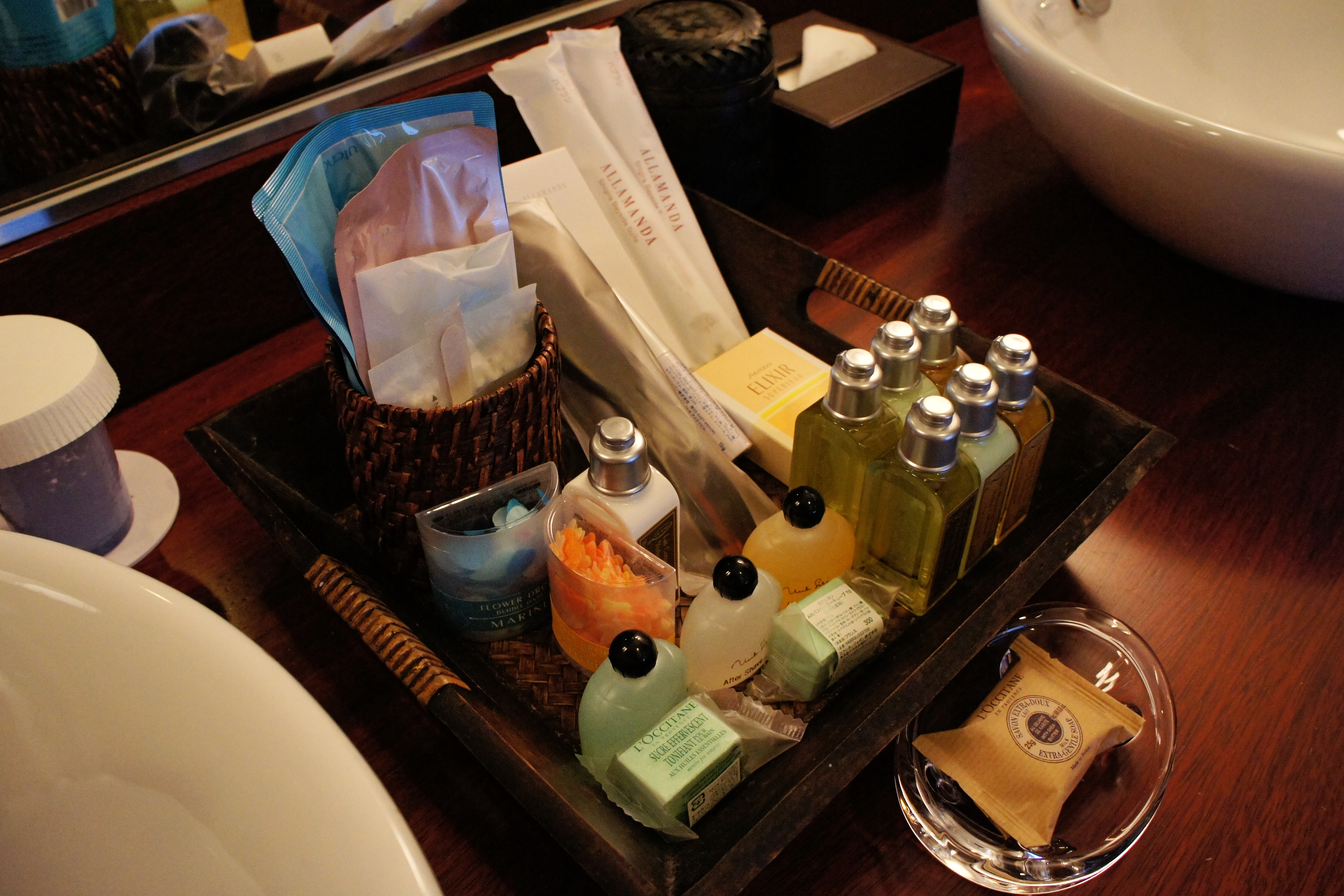 At Shigira Bayside Suite ALLAMANDA in Miyakojima, Okinawa prefecture, Japan.